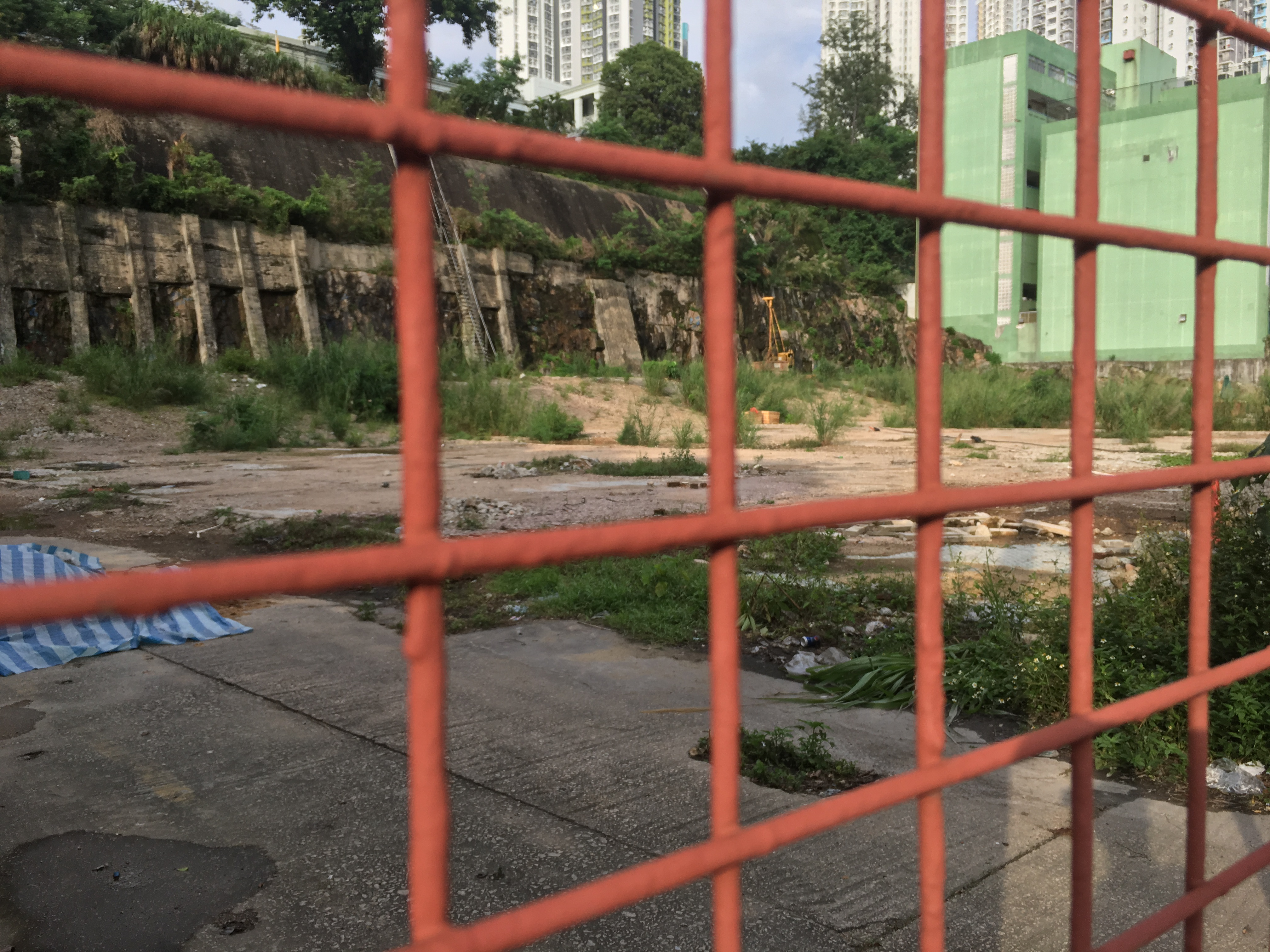 The former site of Kai Tak Mansion (viewed from Kwun Tong Road) was left empty since its clearance completed in 2017.